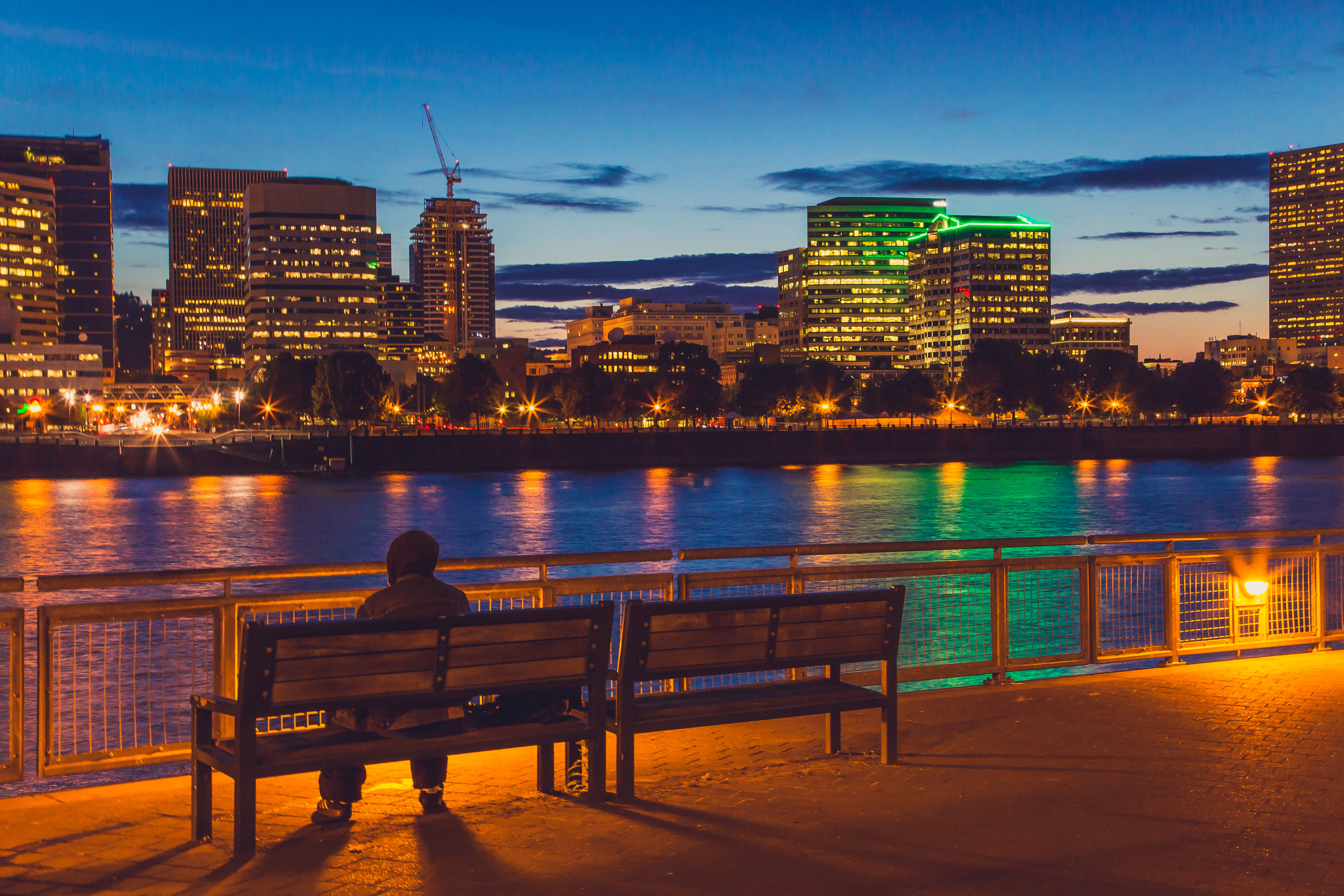 2.5sec long exposure at f/20 - ISO 1000